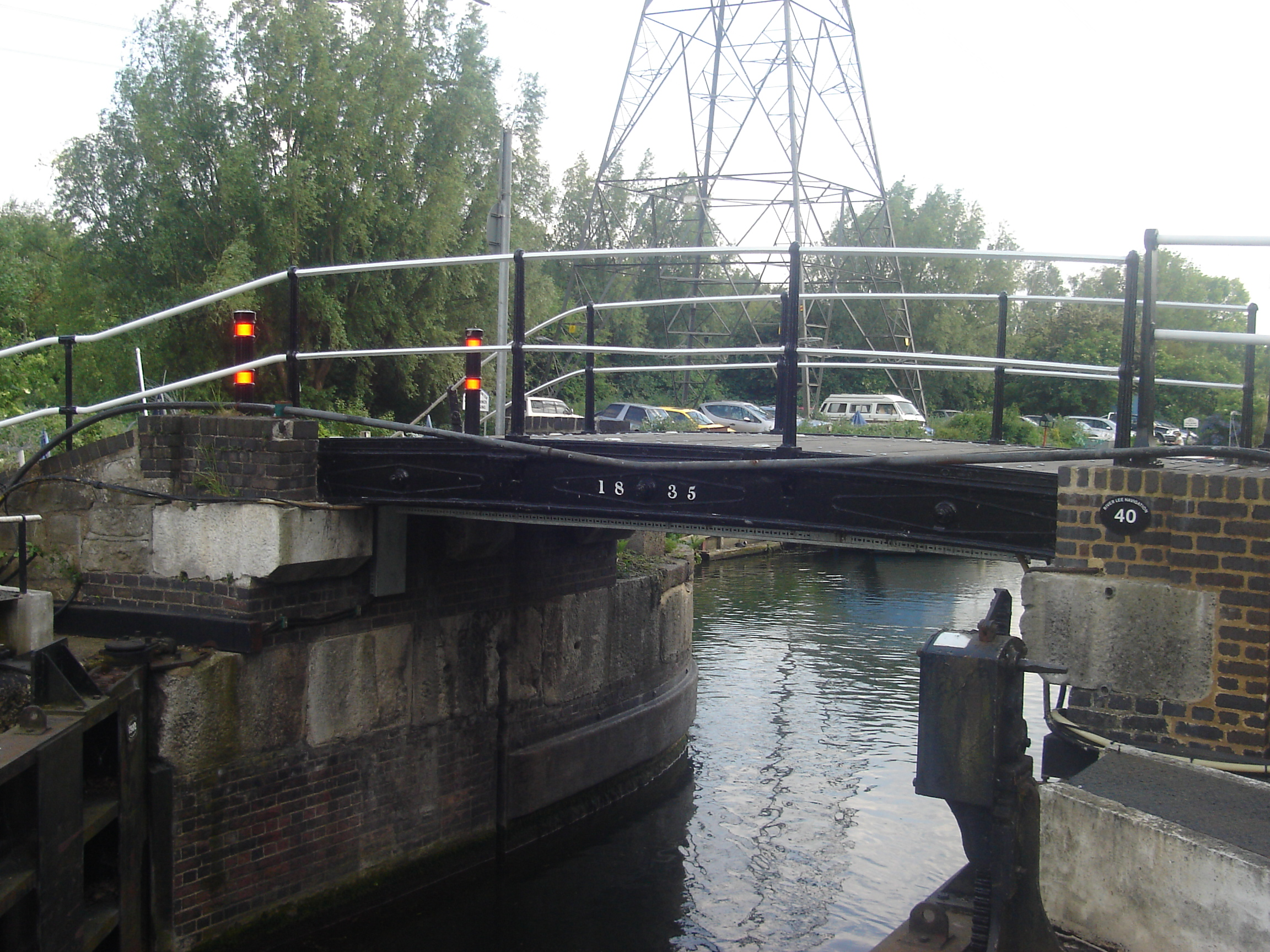 Picture of footbridge at Rammey Marsh Lock